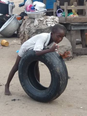 The sad reality in James Town, Accra